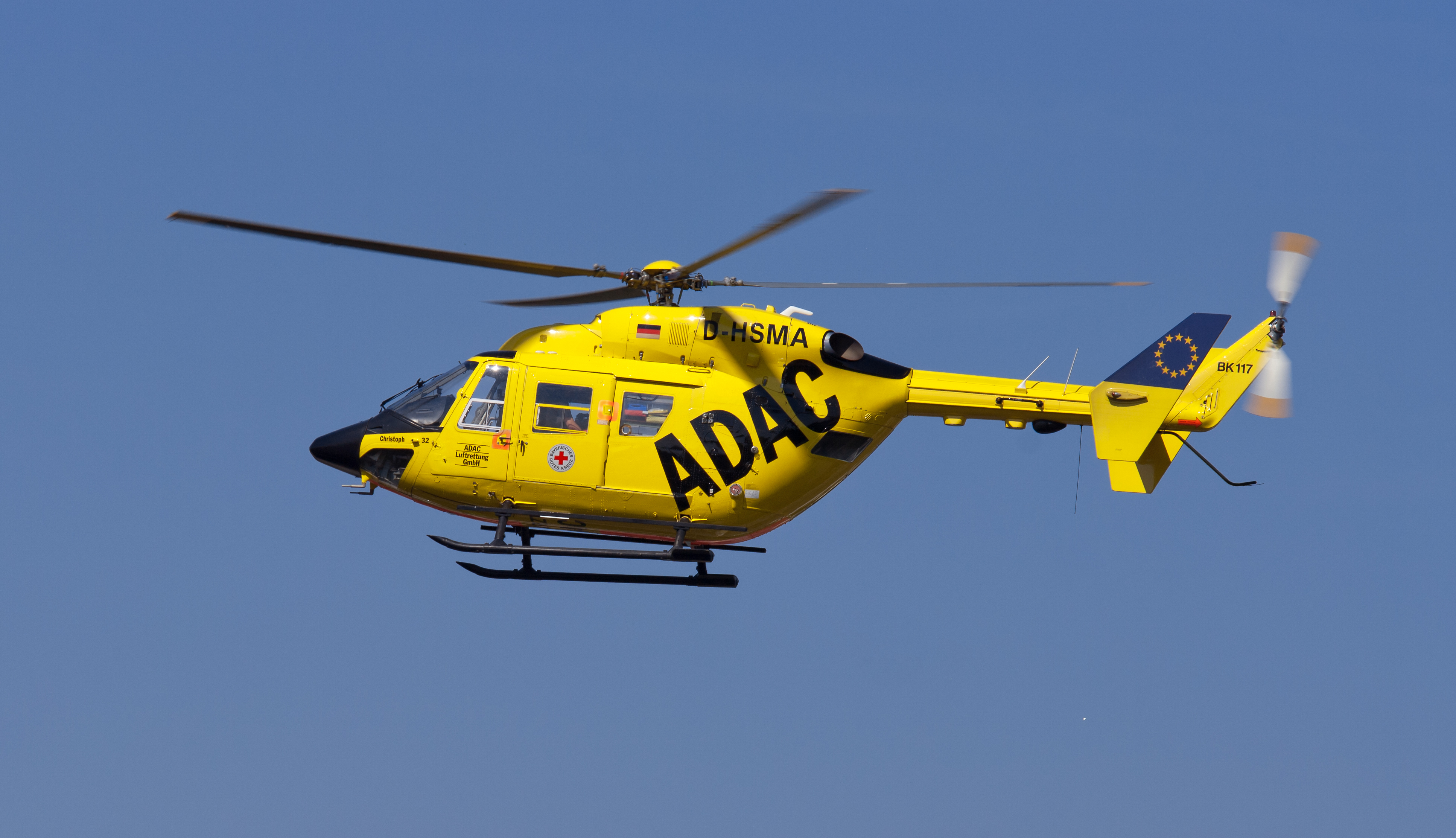 Air ambulance "Christoph 32" (MBB/Kawasaki BK 117), taking off in Warstein.